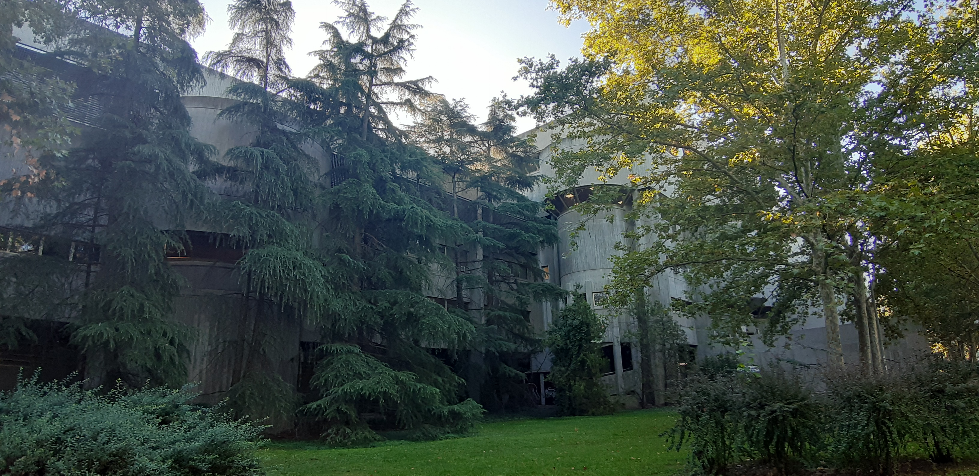 trees and building of the Complutense University of Madrid, Spain.